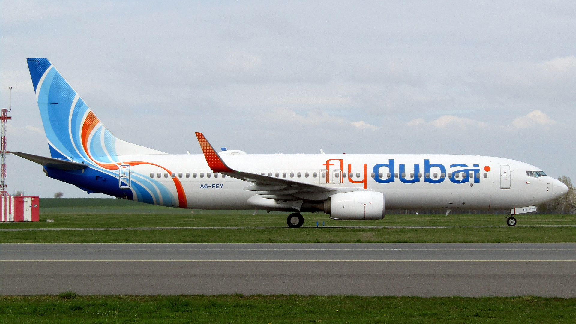 Boeing 737-800, flydubai, PRG